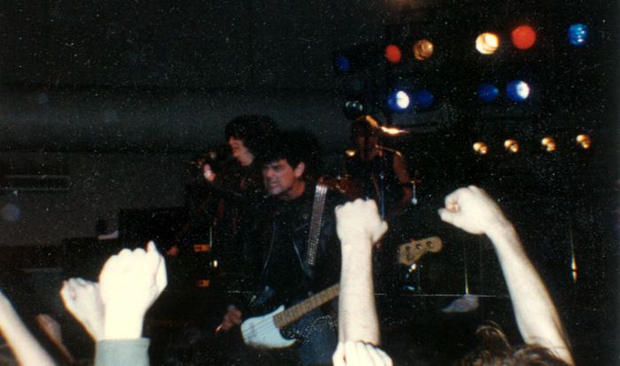 The Ramones (From l to r Joey Ramone, Dee Dee Ramone, Richie Ramone) in concert. The Eagle Hippadrome, 1983 Ramones concert in Seattle, WA. It was the last show at the venue before it was torn down and became a parking lot. Photo was taken with a cheap 110 camera. A little later in the show, DeeDee was hit with a beer bottle that someone thew. He tossed off his bass and jumped in to the crowd to kick the crud out of the guy. He jumped back on stage and walked off and all the while the rest of the guys just kept jamming. They took a break, then all came back on and continued with the show.